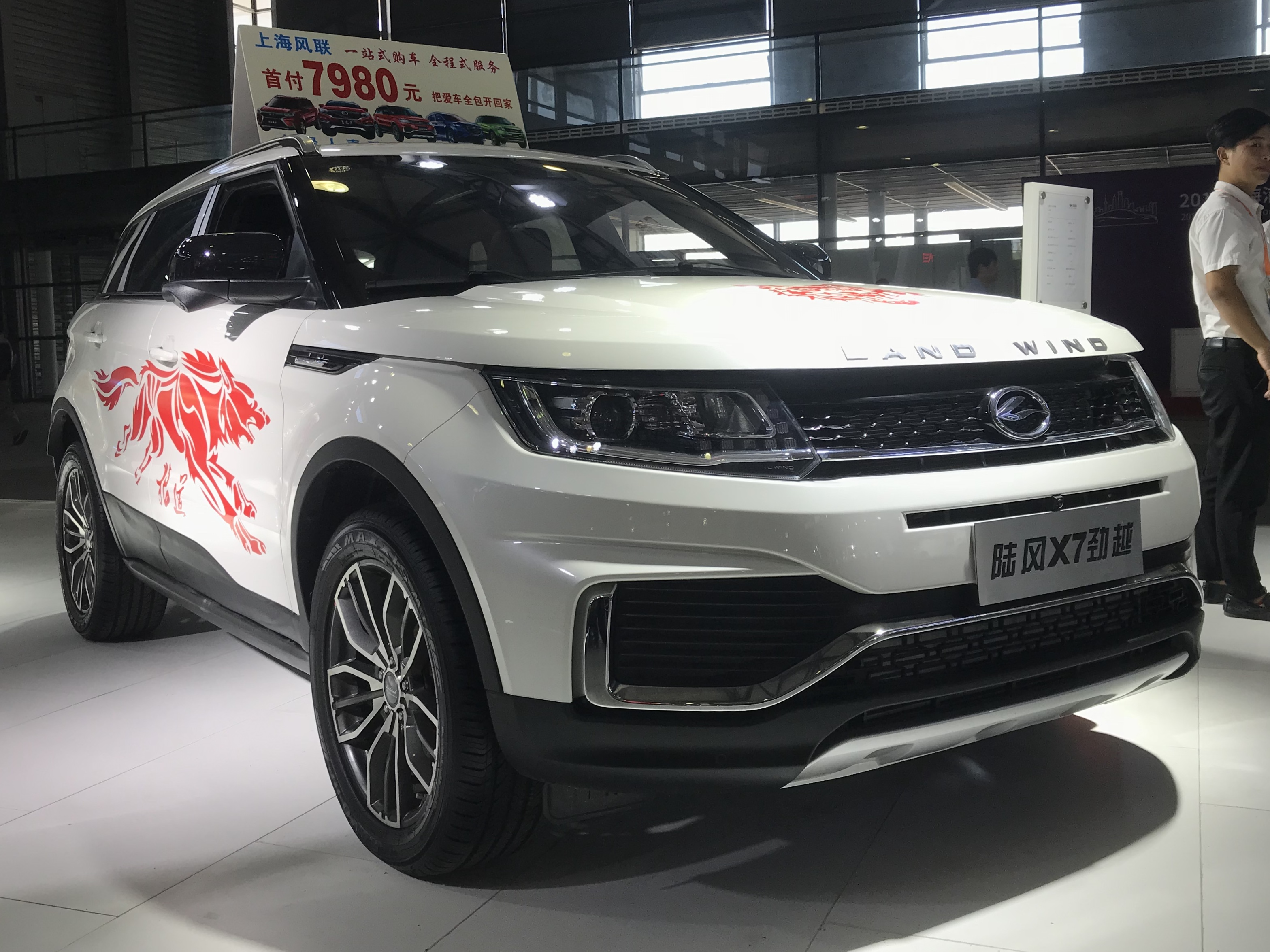 Landwind X7 facelift front